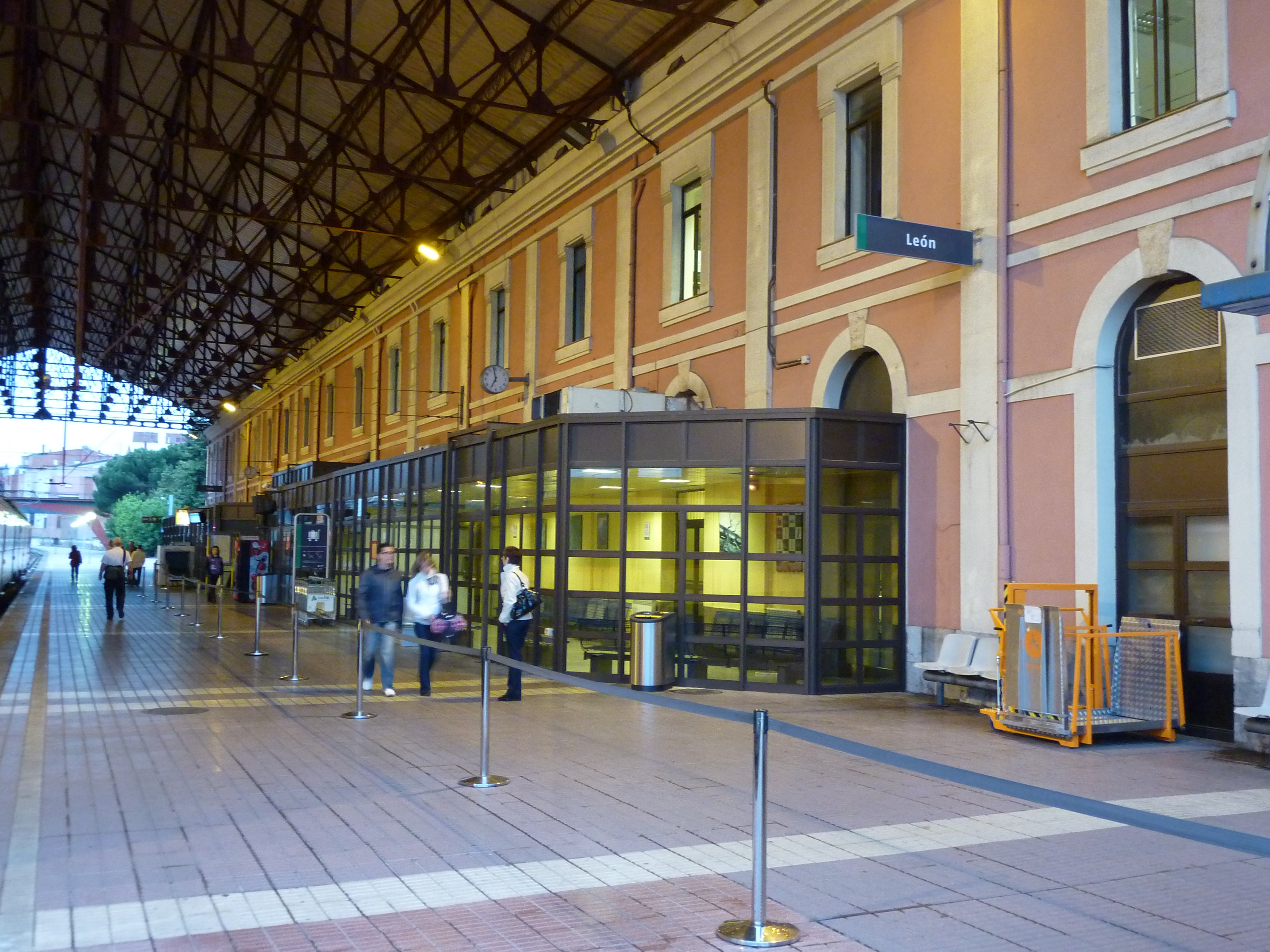 Railway station León in Castile and León, Spain